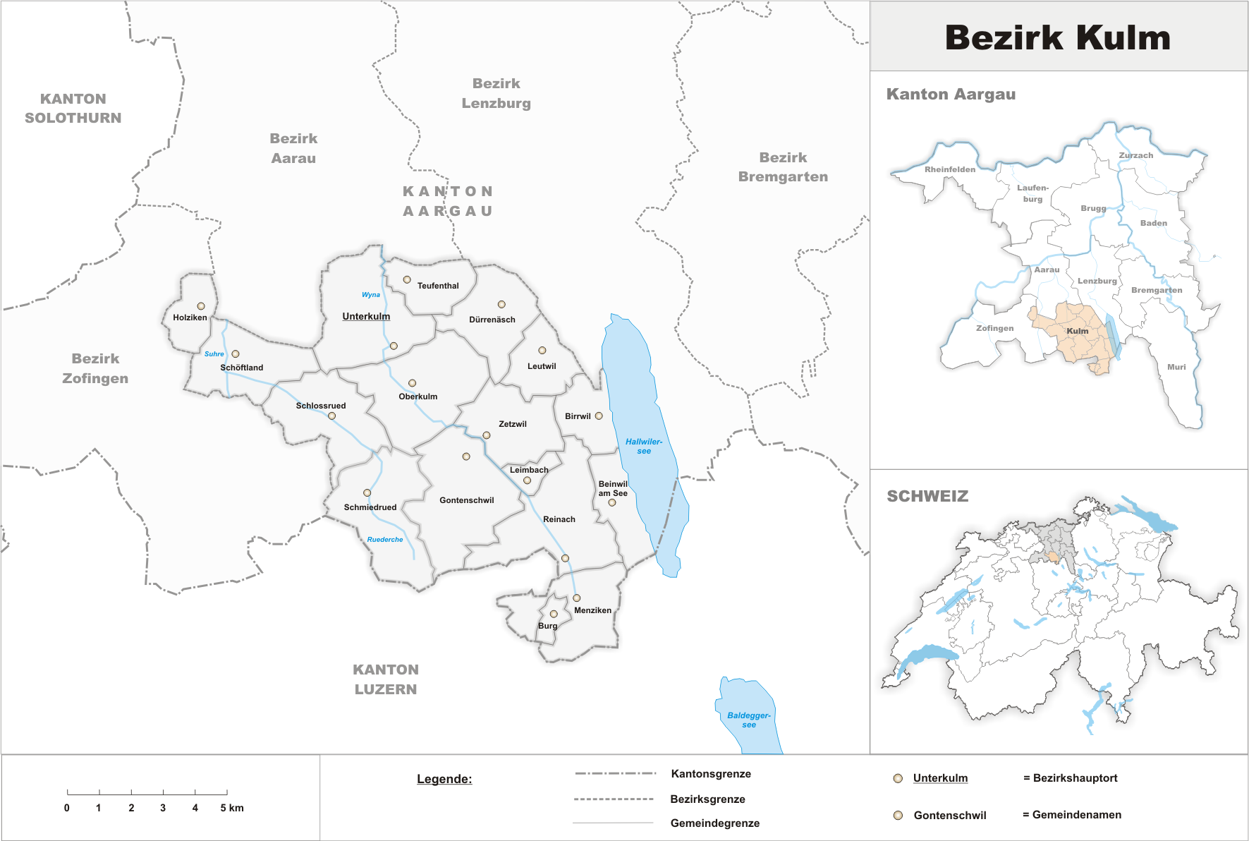 Municipalities in the district of Kulm to 2010